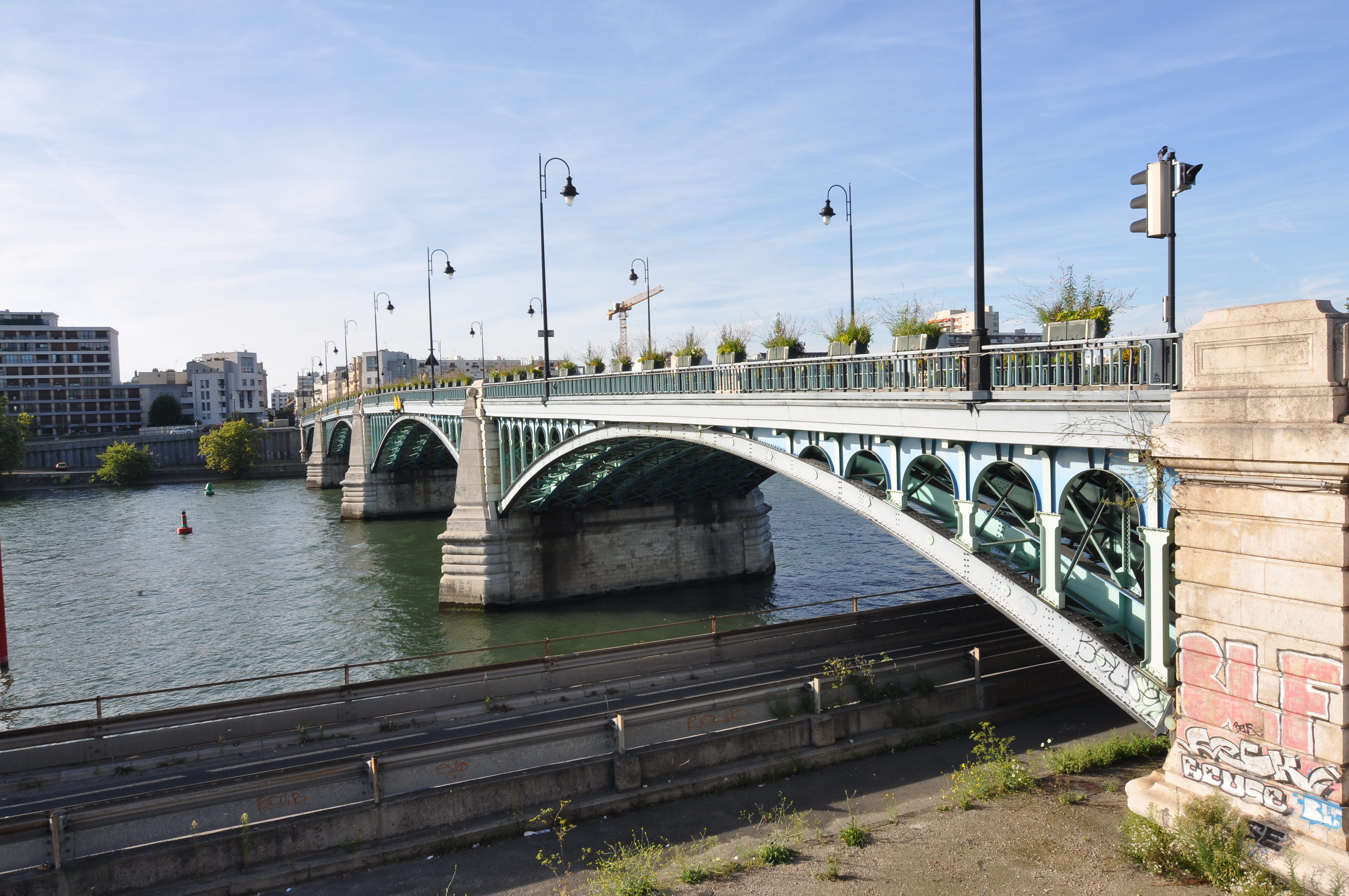 Bridge of Asnières between Asnières-sur-Seine and Clichy-la-Garenne in the Hauts-de-Seine department of France.